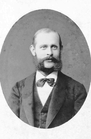 Serif Cafer Efendi - former president of the Department of Appeals (Ottoman Senate)